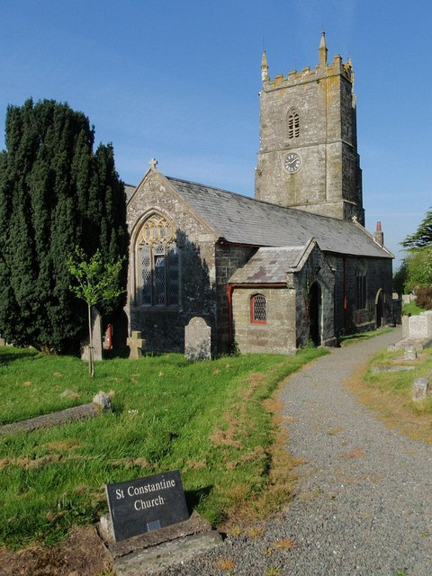 SS Constantine and Aegidius' parish church, Milton Abbot, Devon, seen from the east